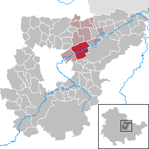 Oßmannstedt in Thuringia - District Weimarer Land